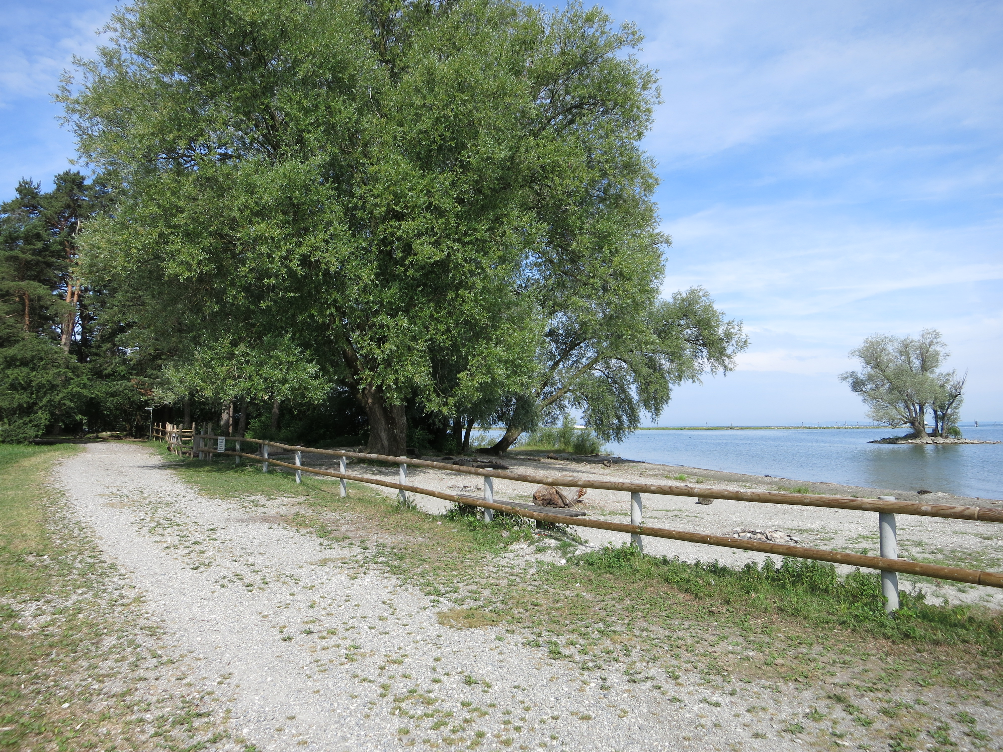 Rheinholz, peninsula in Bodensee